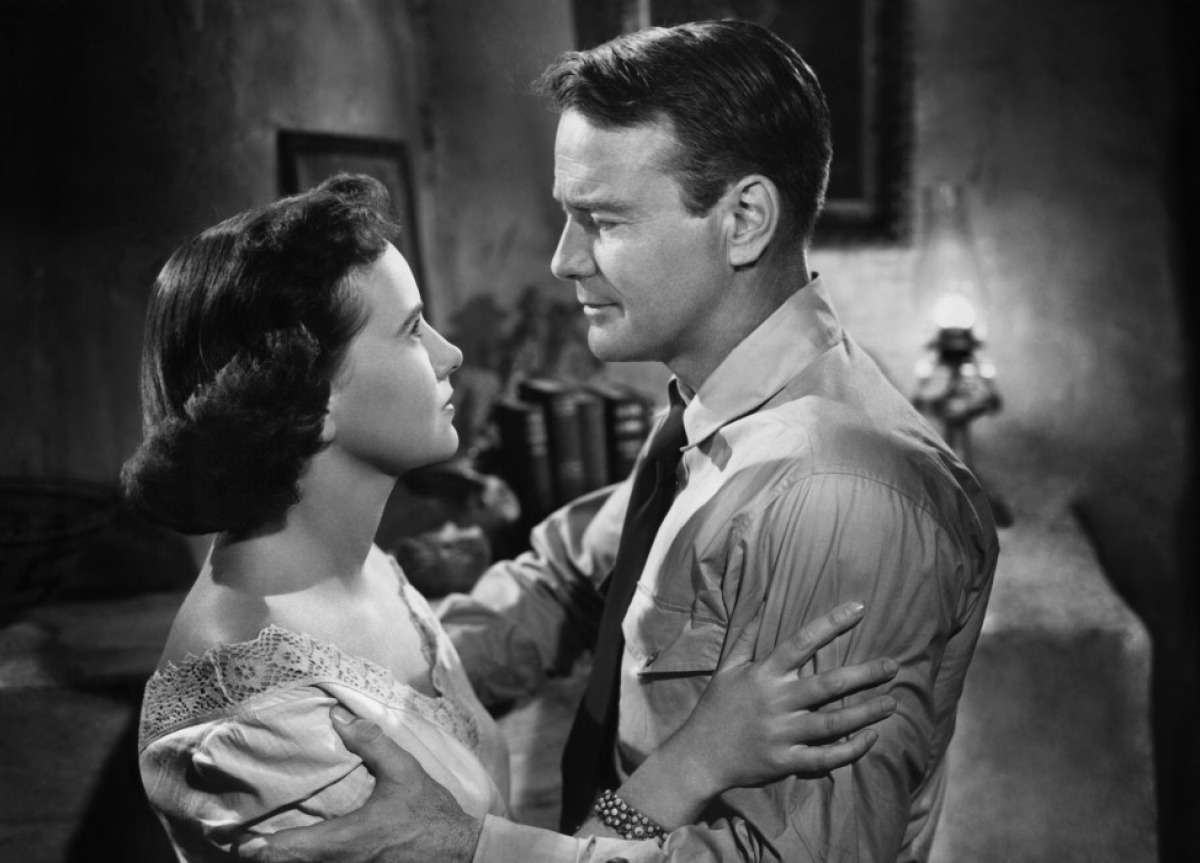 Teresa Wright and Lew Ayres in The Capture (1950) - cropped screenshot